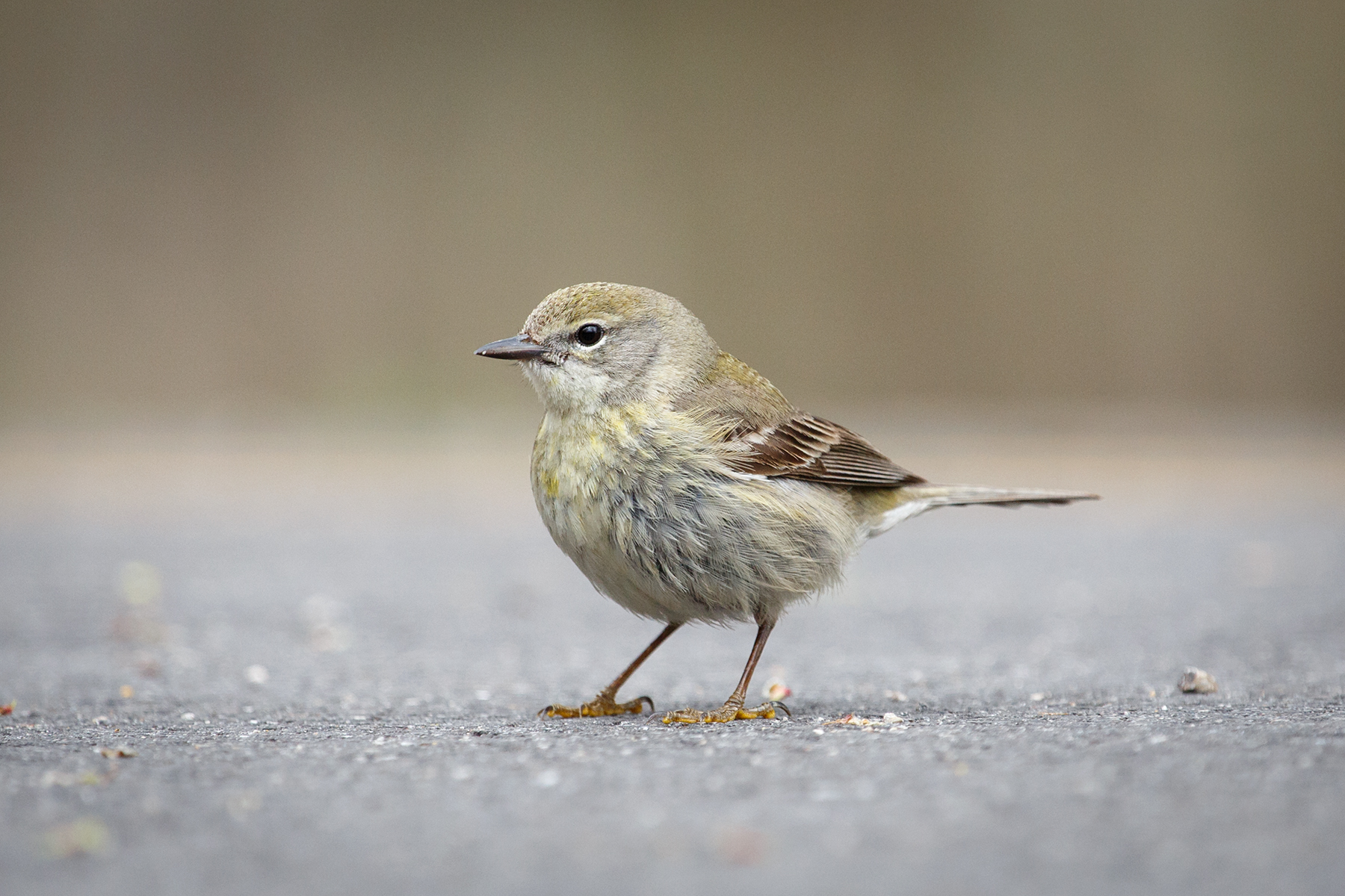 Pine Warbler